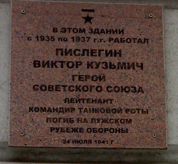 emorial plague of Hero of Soviet Union Victor Pislegin on a bilding of telephon company (Karl Marx street, 264, Izhevsk)